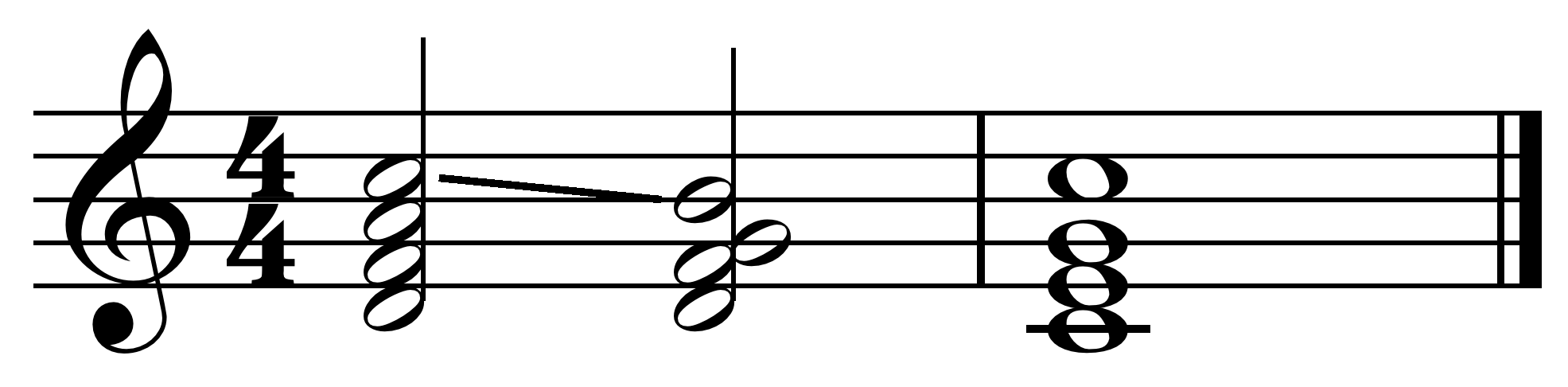 ii7-V7-I turnaround in C.